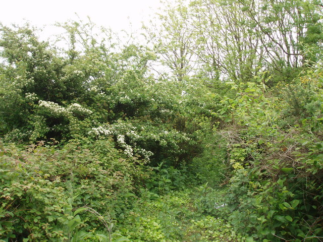 Rosudgeon Common. Scrubby woodland, formerly the scene of mining activity.